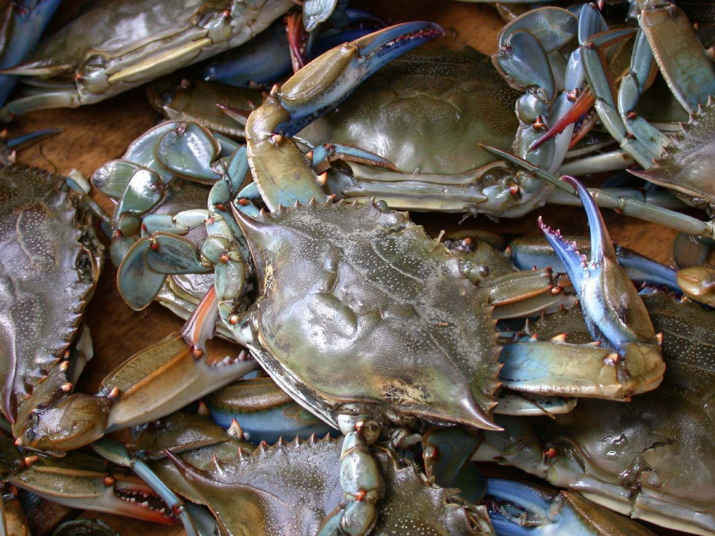 Blue crab on market in Piraeus - Callinectes sapidus Rathbun